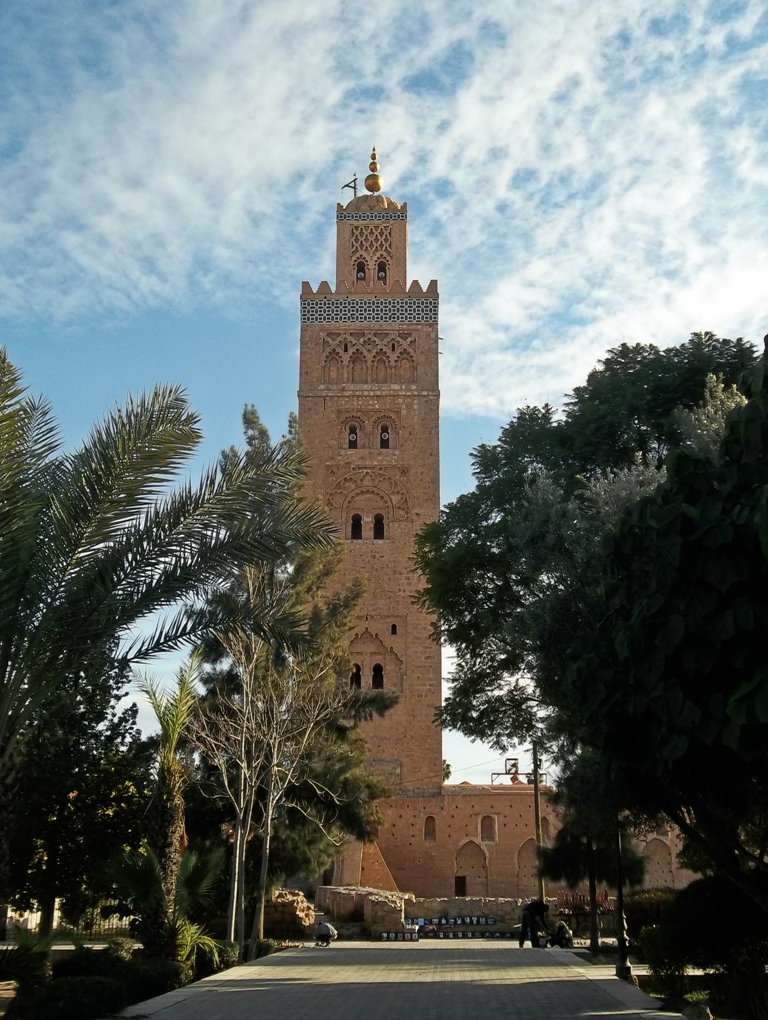 in Marakesh, Morocco